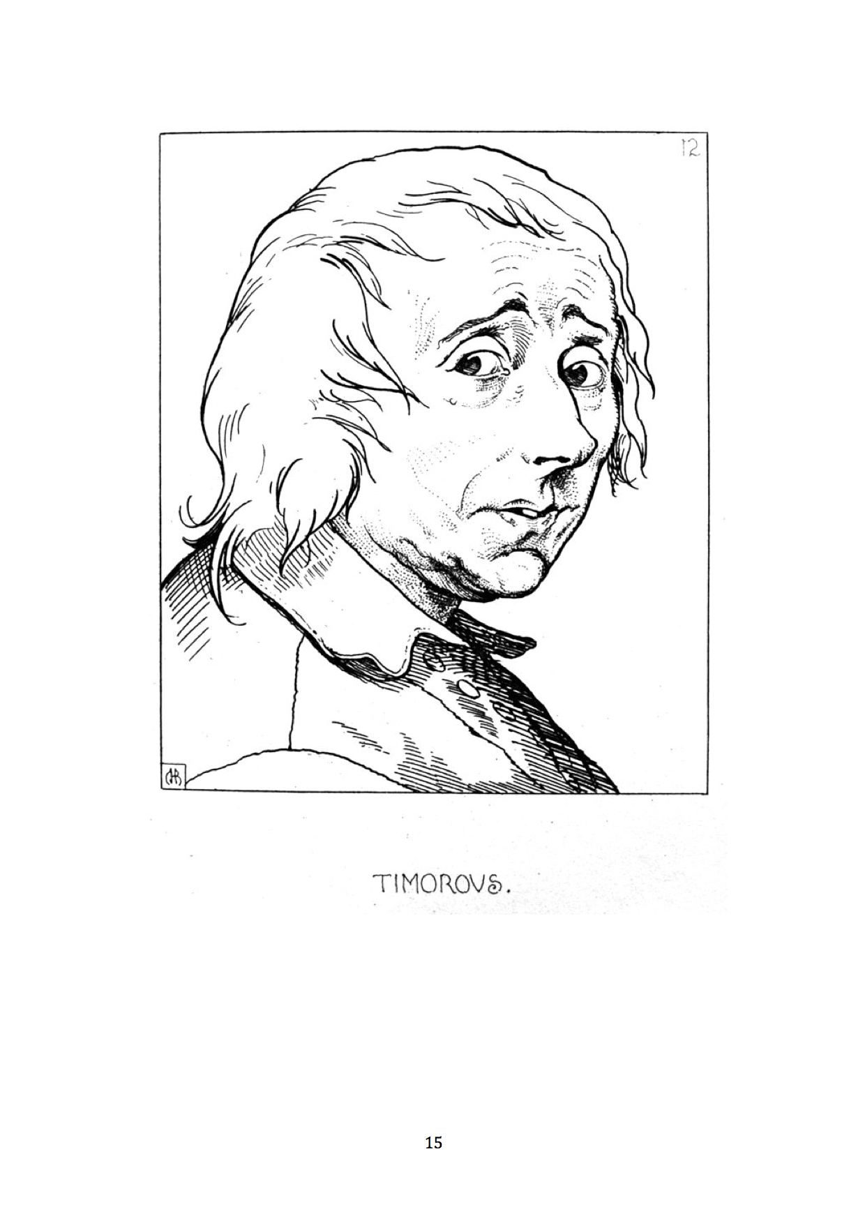 A line drawing of 'Timorous' from Pilgrim's Progress drawn by Charles H Bennett